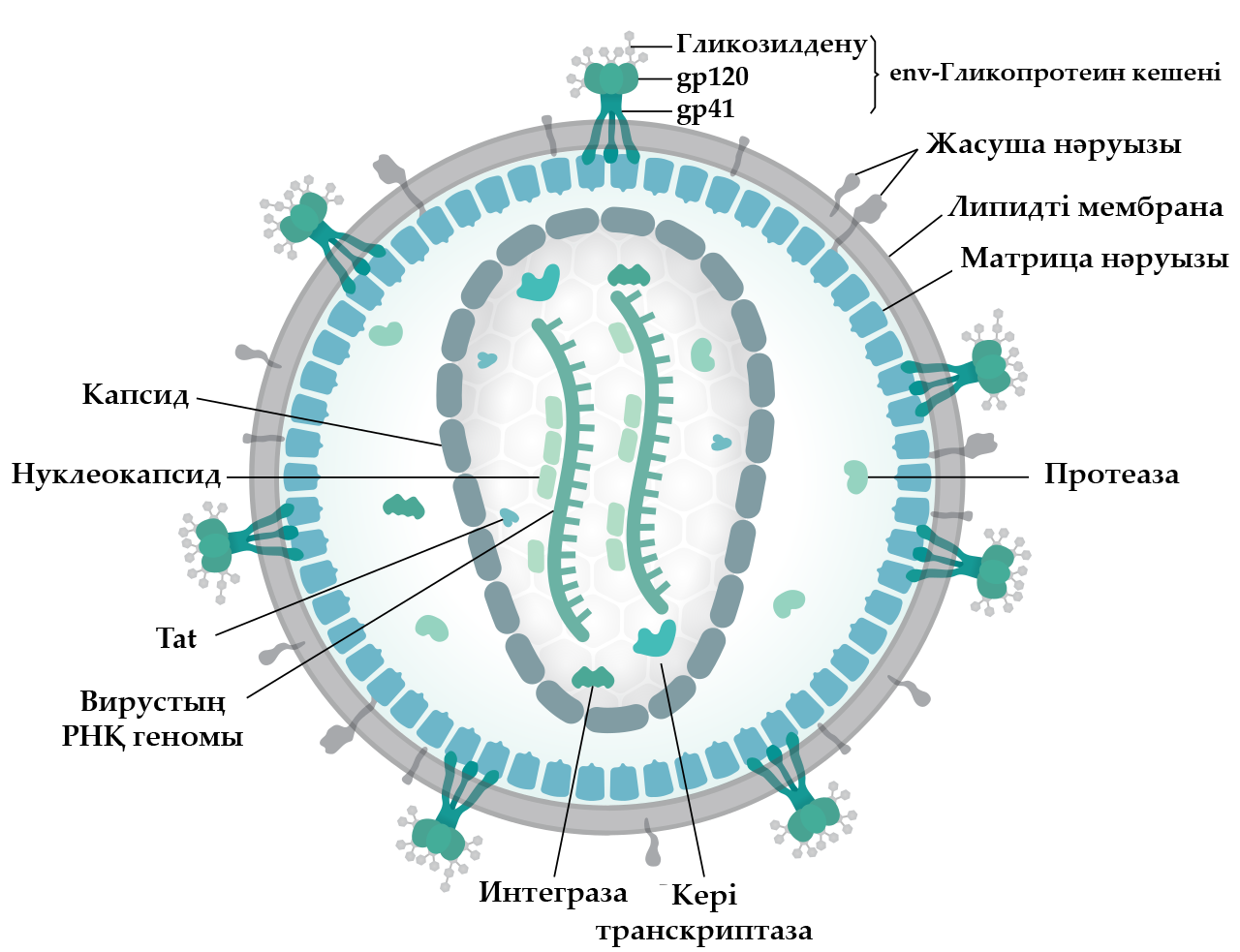 Diagram of the HIV virion